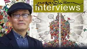 Gonkar Gyatso.